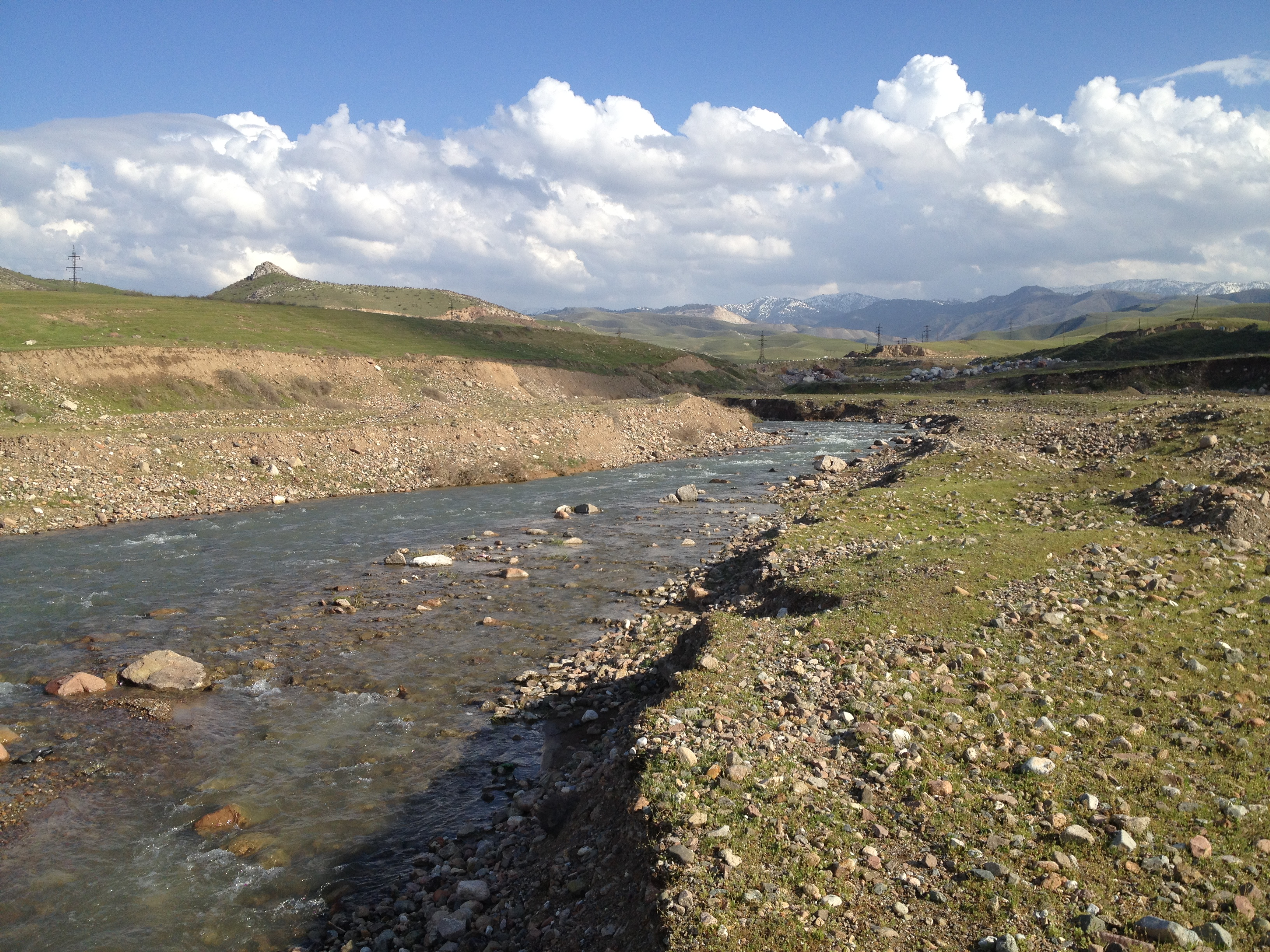 Saukbulak river in lower reaches, April